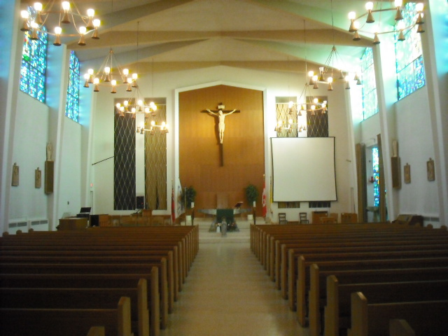 The Chapel at Regina Mundi Catholic College, London, Ontario, Canada